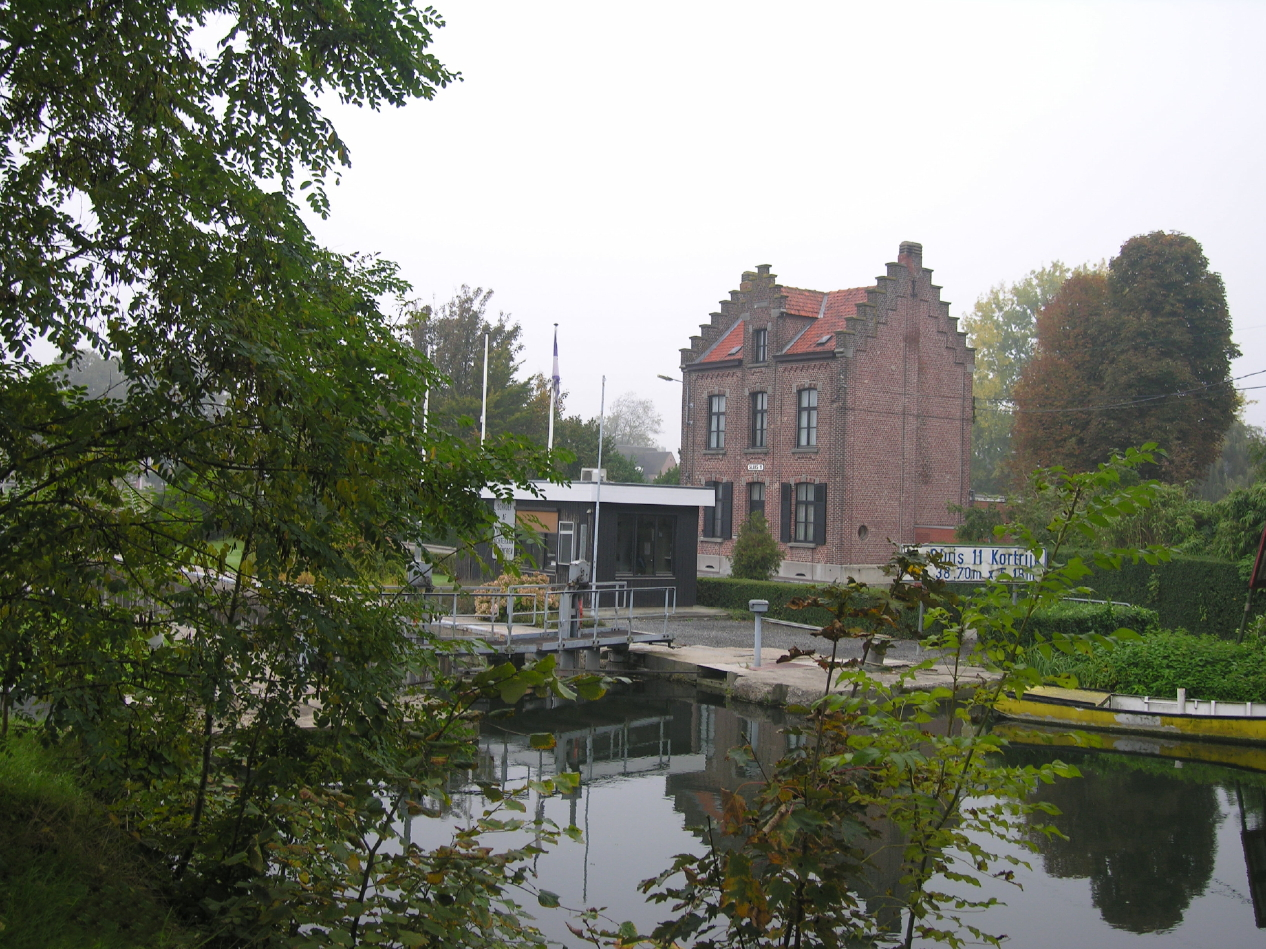 Kortrijk, Belgium: Lock keeper's house at lock nr 11 at the Canal Kortrijk-Bossuit